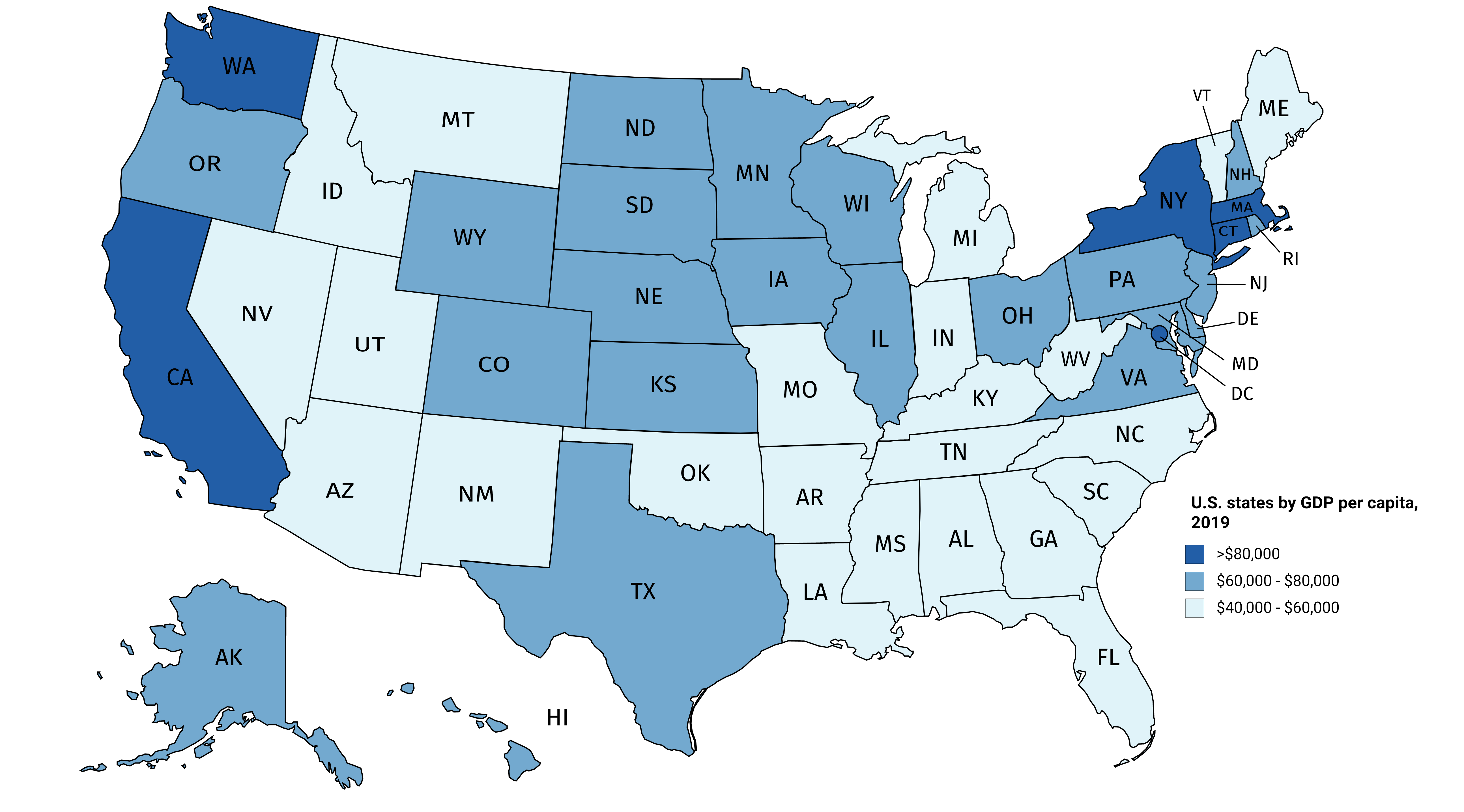 U.S. states by GDP per capita, 2019